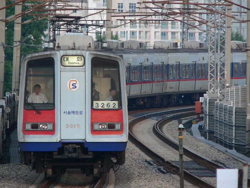 Seoul Metro 3000series EMU by Thyristor Chopper Control